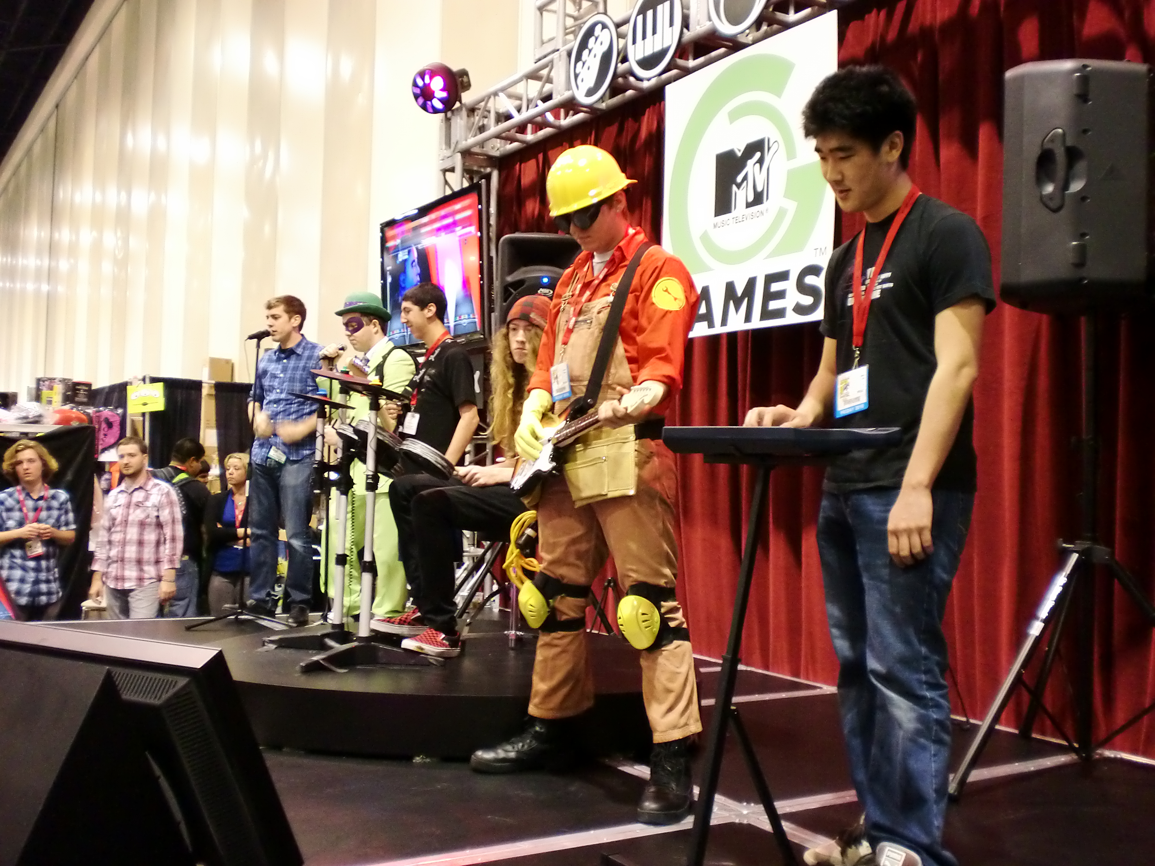 People playing Rock Band 3 at San Diego Comic Con International 2010.